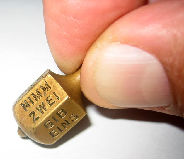 Nimmgib (Put and Take) game of 1923